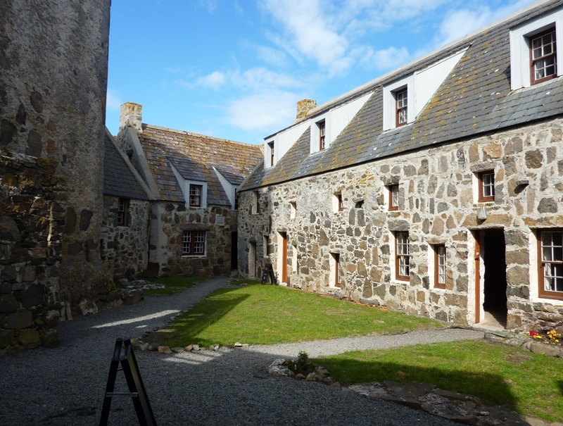 Kisimul Castle, Barra, Scotland - courtyard